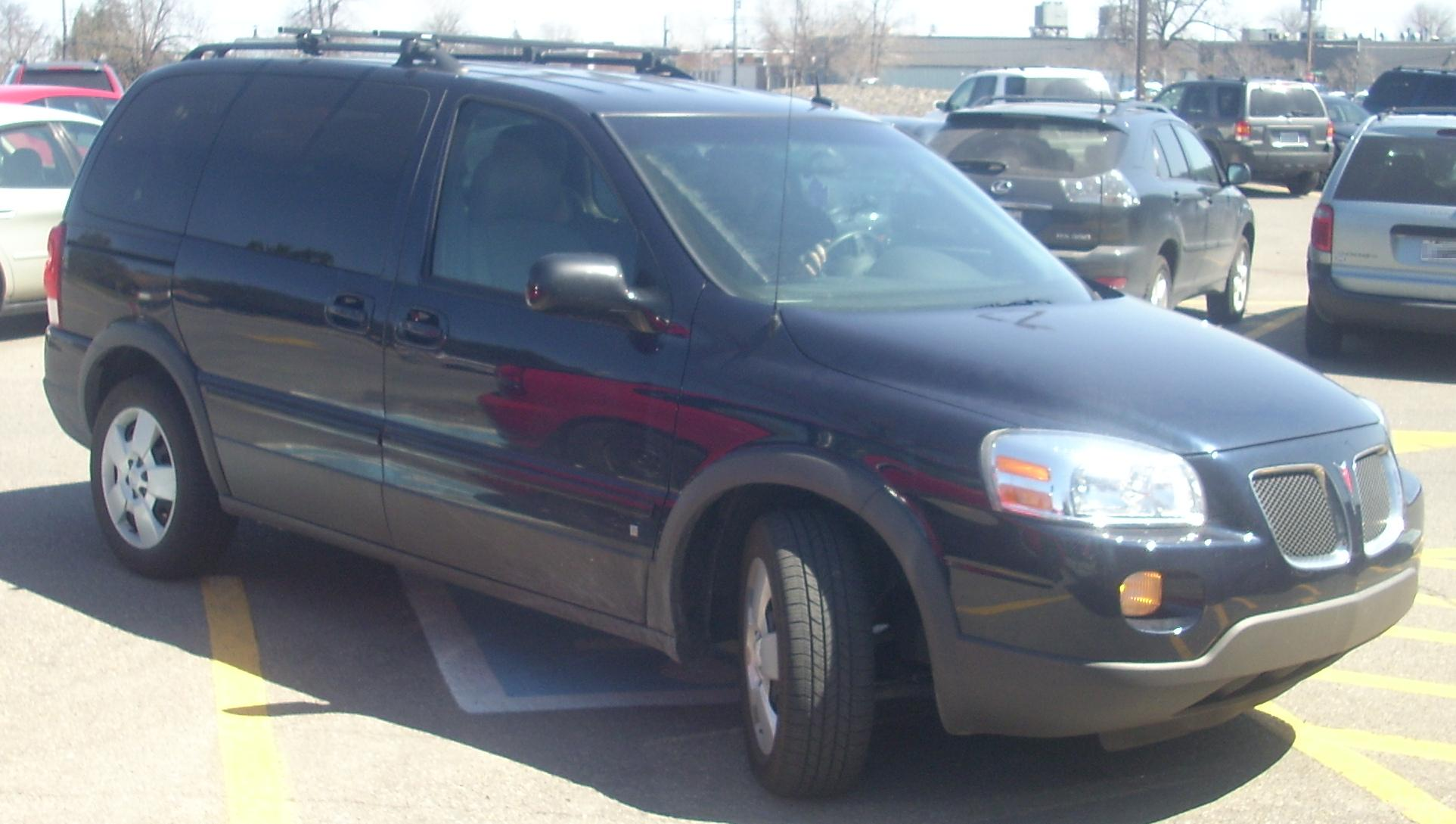 2006-2009 Pontiac Montana SV6 photographed in Pointe Claire, Quebec, Canada.